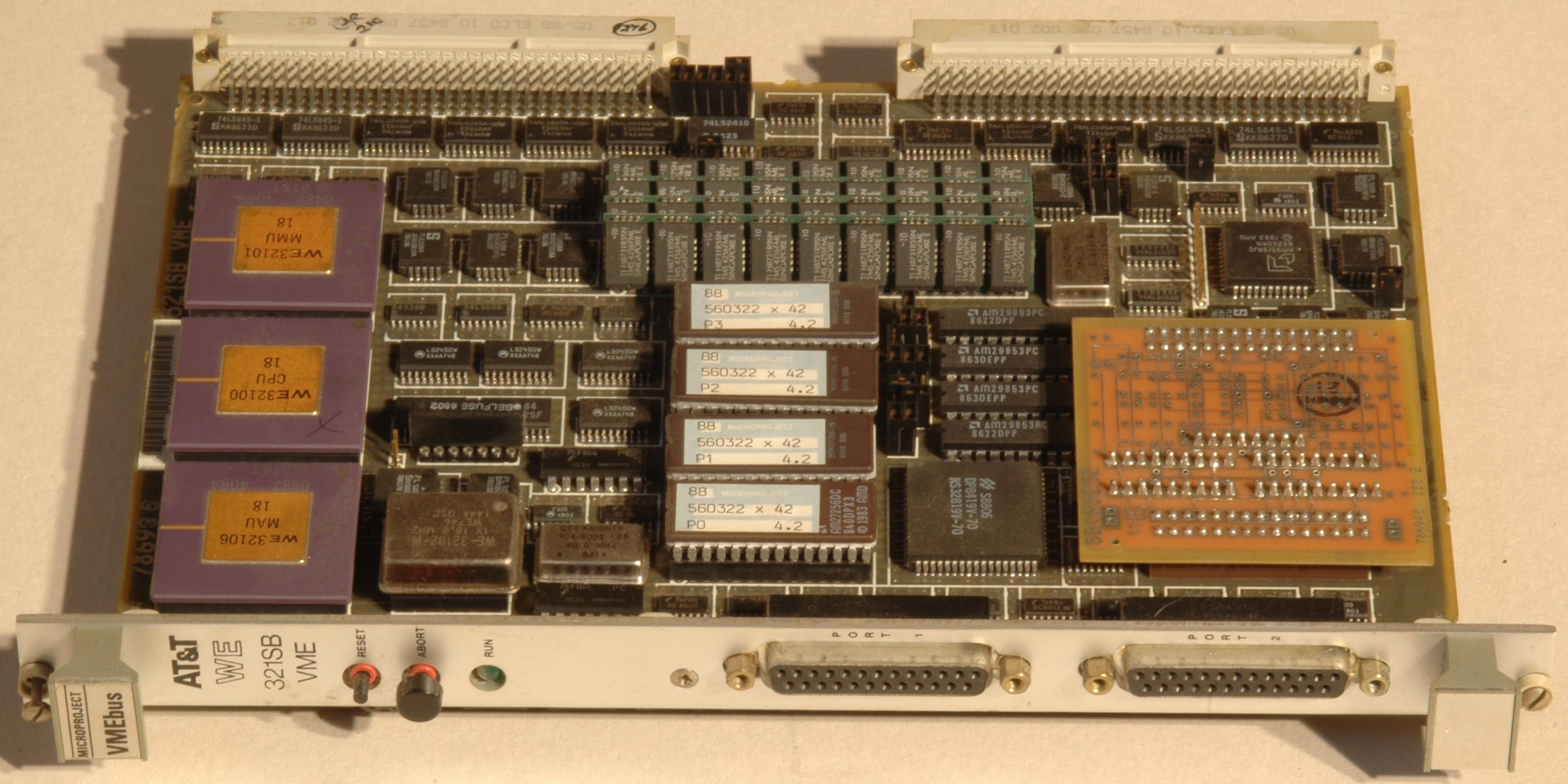 VME version of the AT&T 3B2.